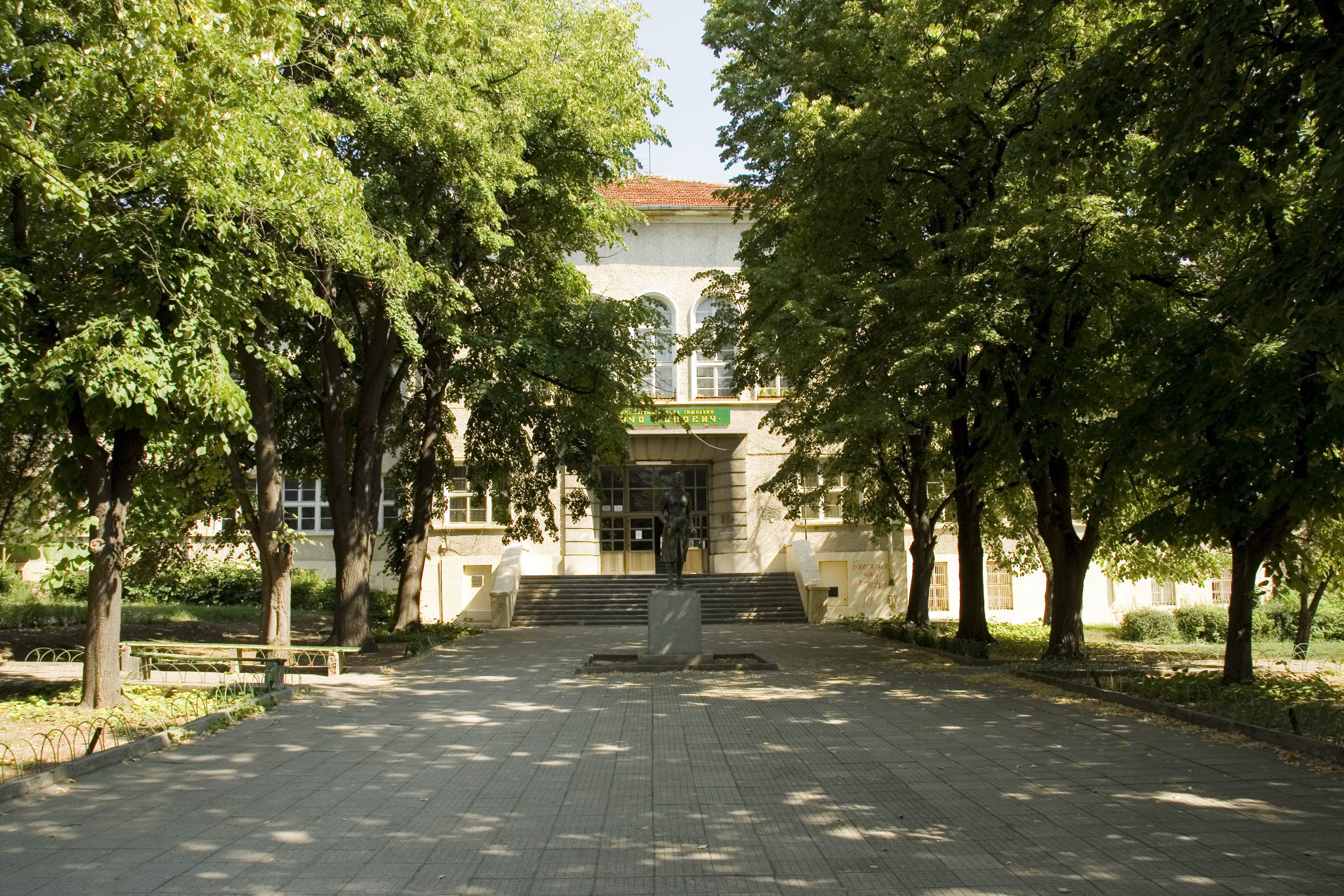 The front yard of PMG "Nancho Popovich" high school in Shumen, Bulgaria.